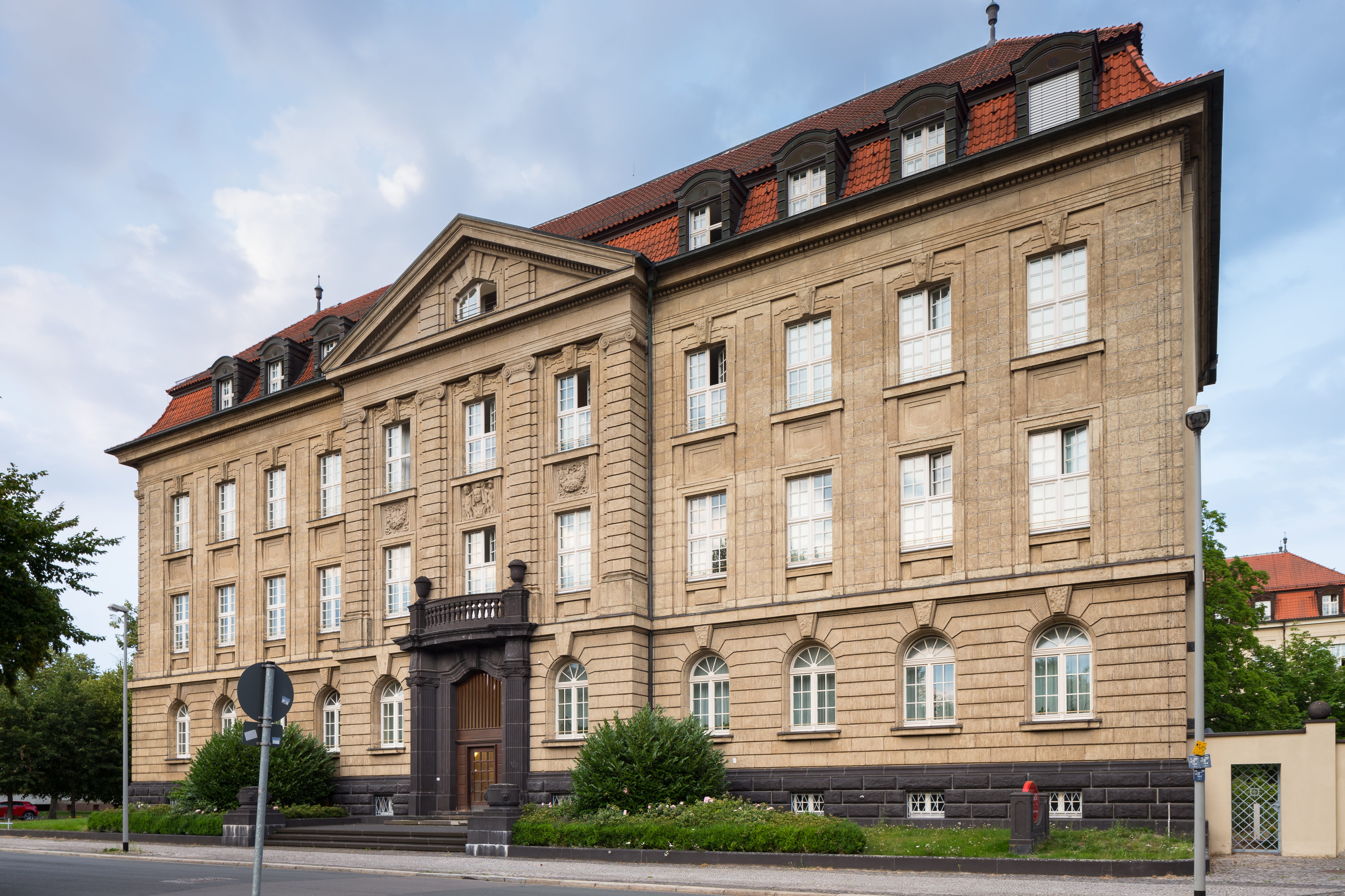 Building of the former postal administration located at Luerstrasse (pictured) and Zeppelinstrasse in Zoo quarter of Hannover, Germany.